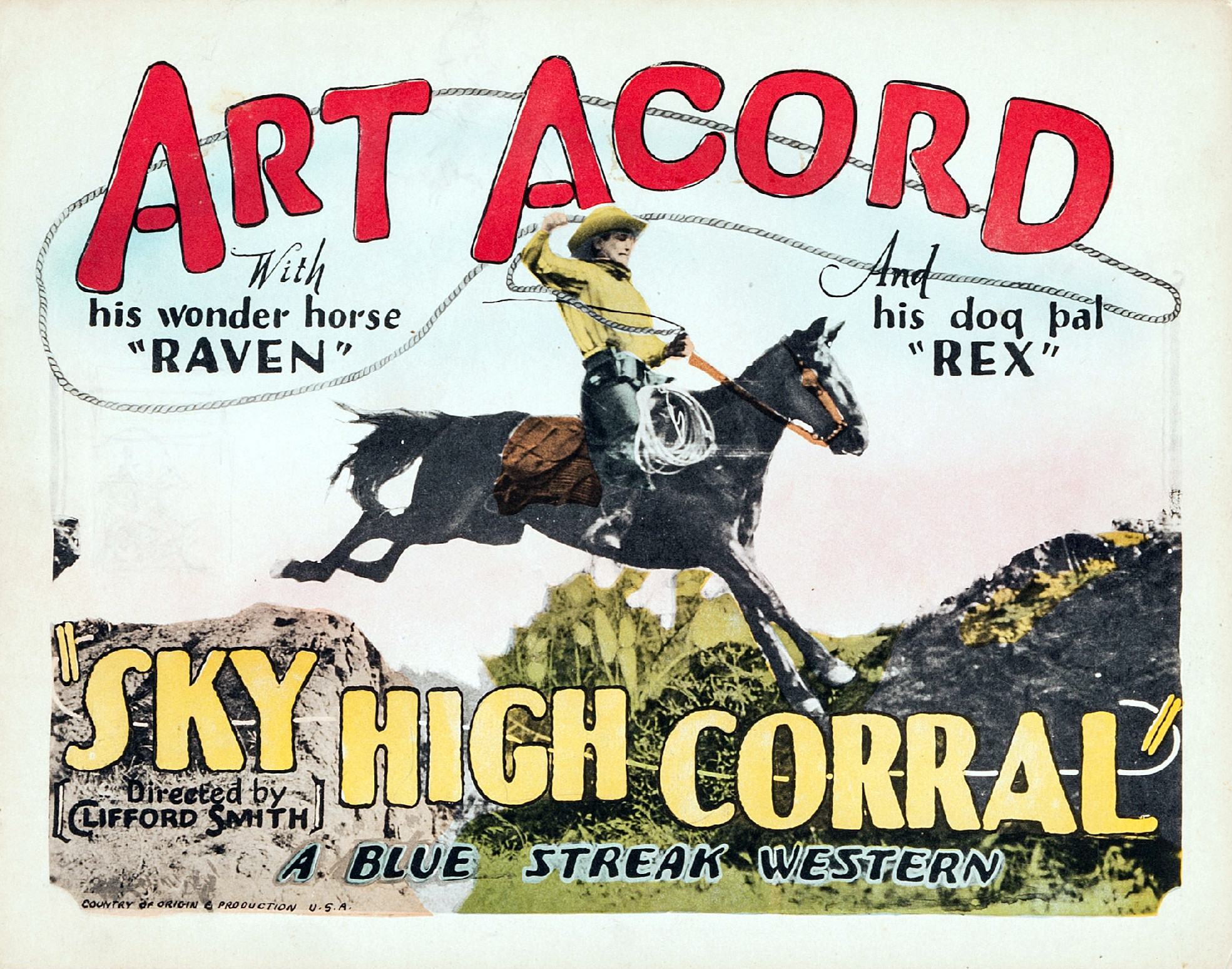 Lobby card for the 1926 American film Sky High Corral with Art Acord and his horse Raven. The item has no copyright markings on it as can be seen in the links above. At bottom left is Country of origin and production USA.